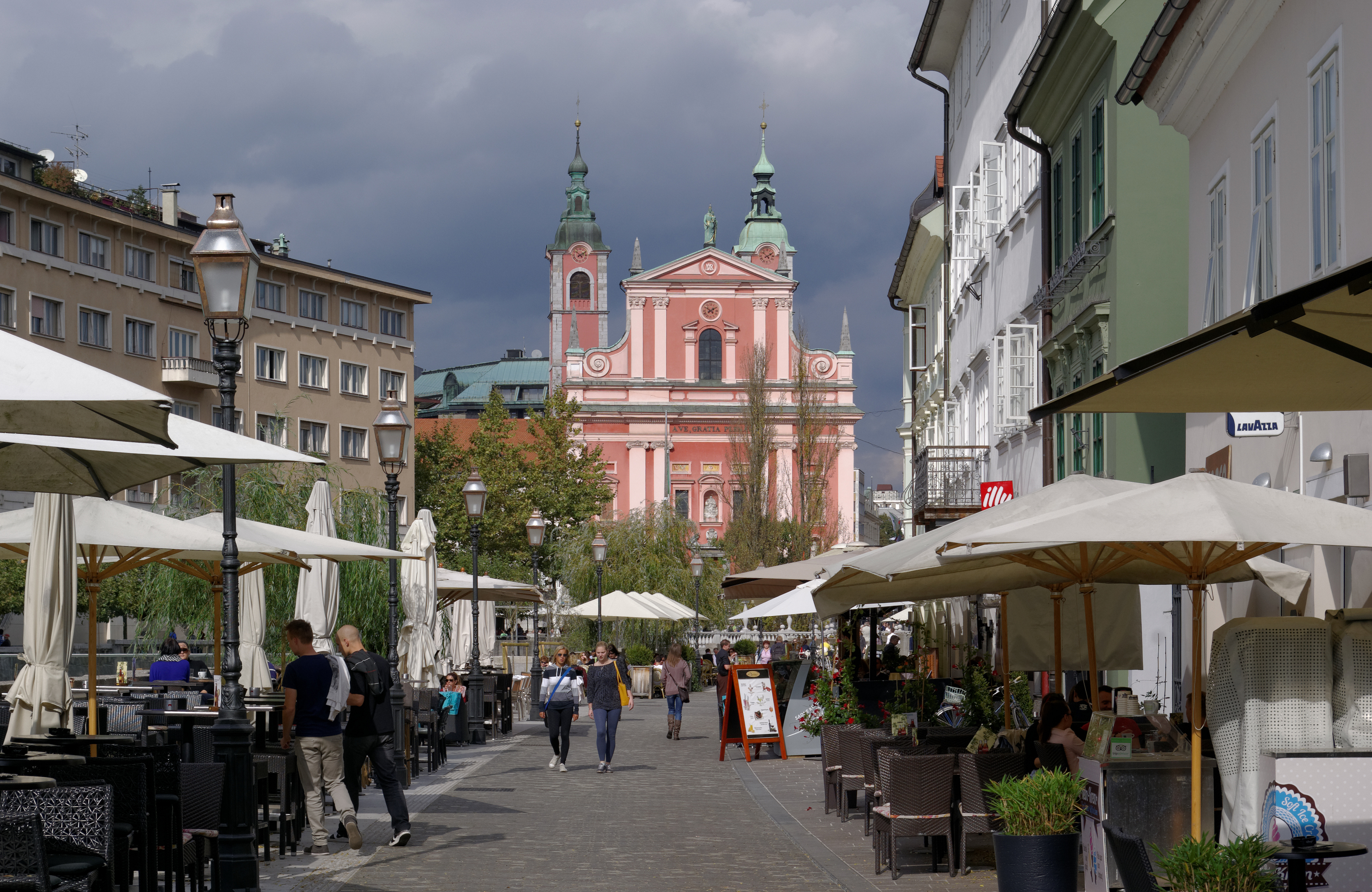 Slovenia, Ljubljana, the street Cankarjevo nabrežje